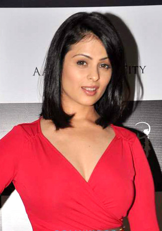 Anjana Sukhani at the Aamby Valley City Glitterati 2013 press meet